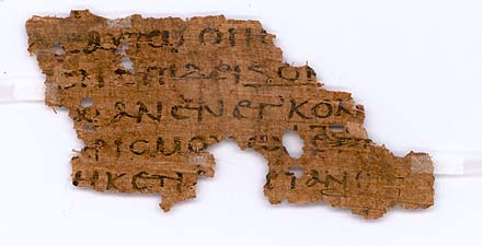 A fragment of the Egerton Gospel. Papyrus collection of the University of Cologne, Papyrus Köln 255 (P. Köln 255 or P. Köln VI 255).